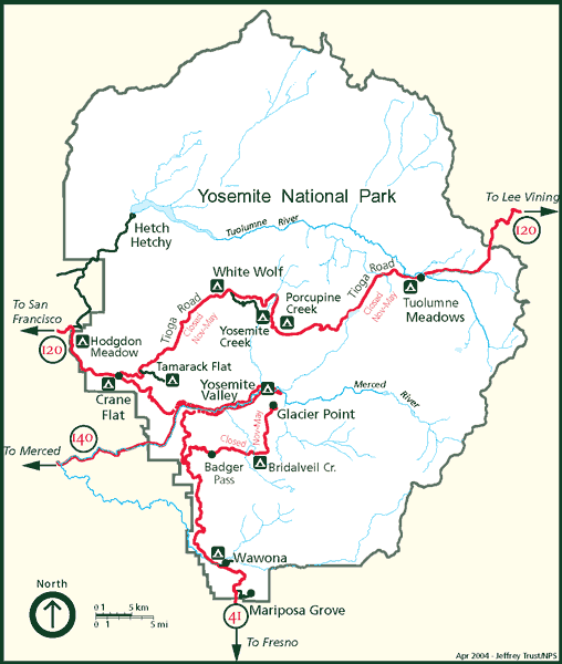 NPS map of Yosemite National Park